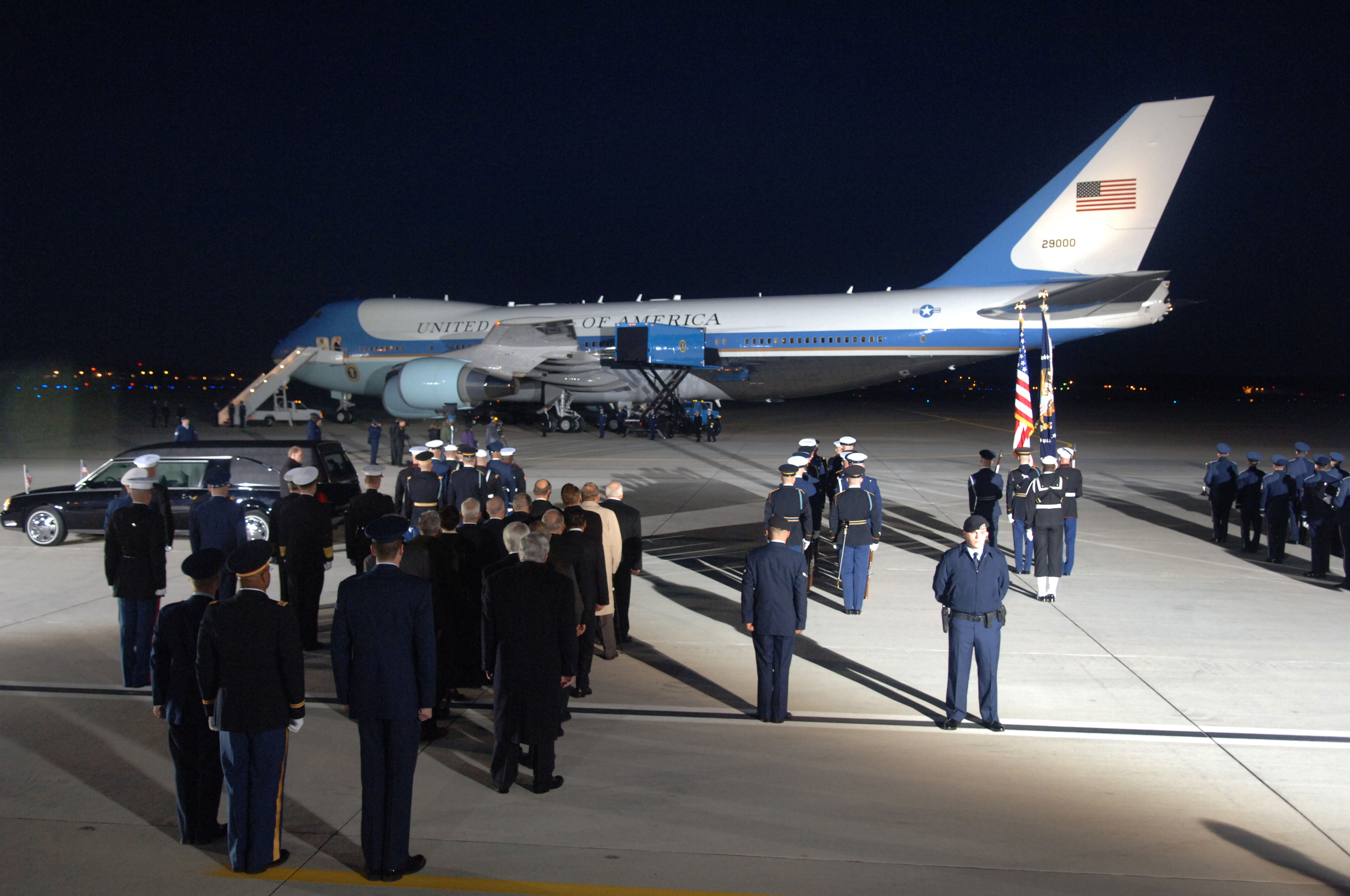 Andrews Air Force Base, Md. (Dec. 30, 2006) – The casket of Gerald R. Ford, 38th president of the United States, arrives at Andrews Air Force Base, Md., Dec. 30, 2006, as part of a national farewell funeral procession honoring the former commander in chief. DoD personnel are helping to honor Ford, the 38th president of the United States, who passed away on Dec. 26th. Ford's remains were flown to Washington, D.C., for a state funeral in the Capitol Rotunda and a funeral service at the Washington National Cathedral, followed by burial services at the Gerald R. Ford Presidential Museum in Grand Rapids, Mich. U.S. Air Force photo by Tech. Sgt. Craig Clapper (RELEASED)